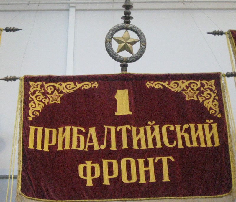 Regimental colours of the 1st Baltic Front